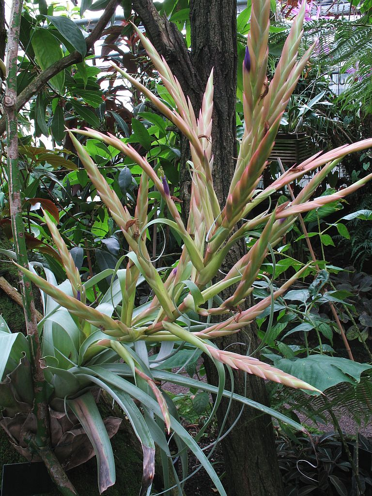 Tillandsia sueae in cultivation at the Botanical Garden of Heidelberg, Germany.